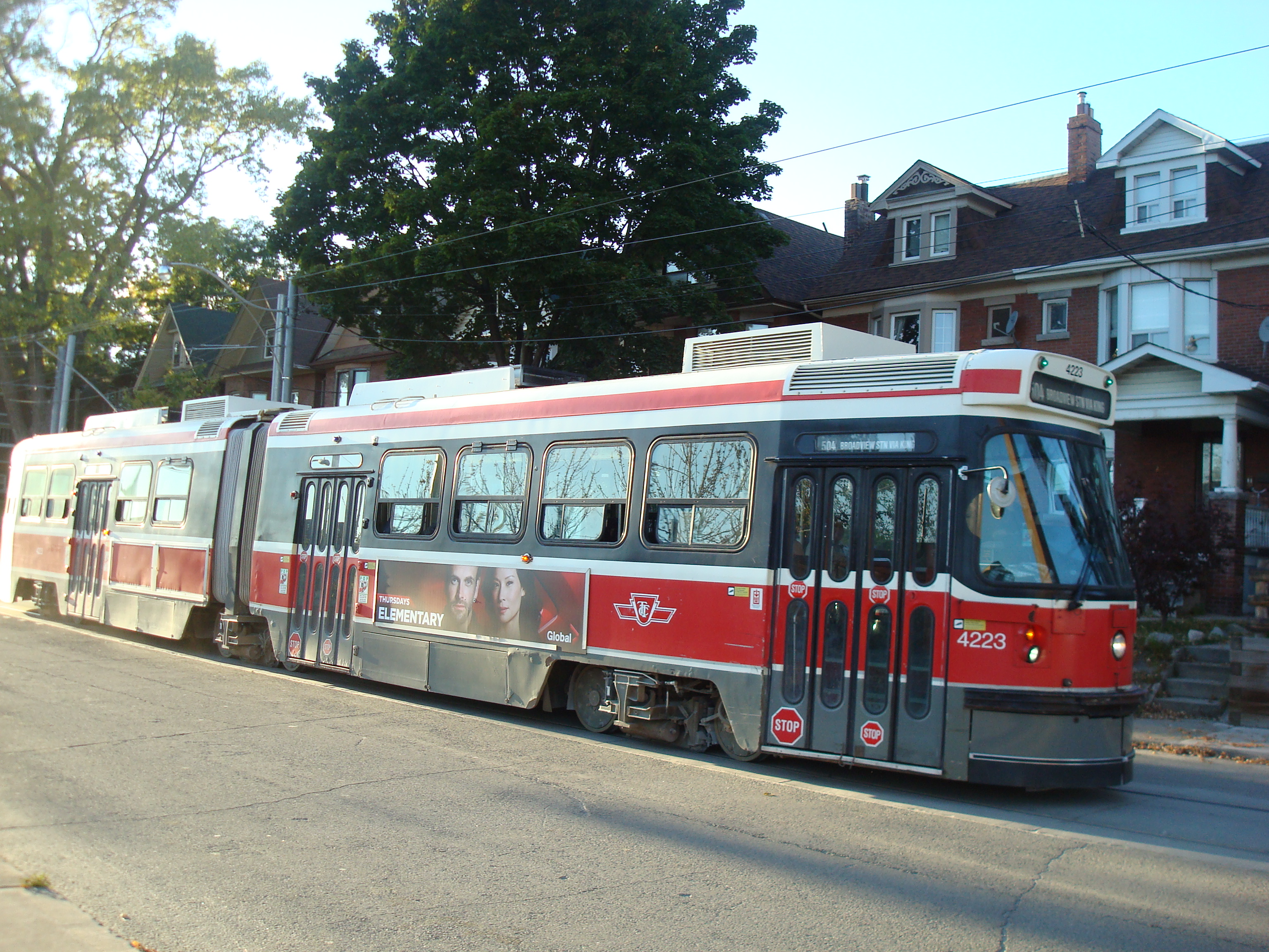 Just as it says on the nameplate... The ALRV is on Edna Avenue, which streetcars use to exit Dundas West Station. Shot on August 10, 2013.